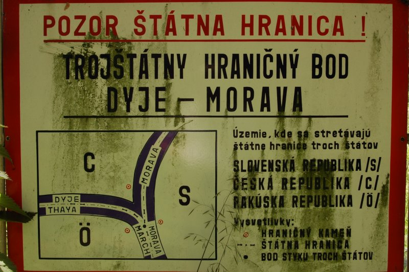 Thaya (Dyje) and Morava confluence, Austrian-Czech-Slovak borders intersection